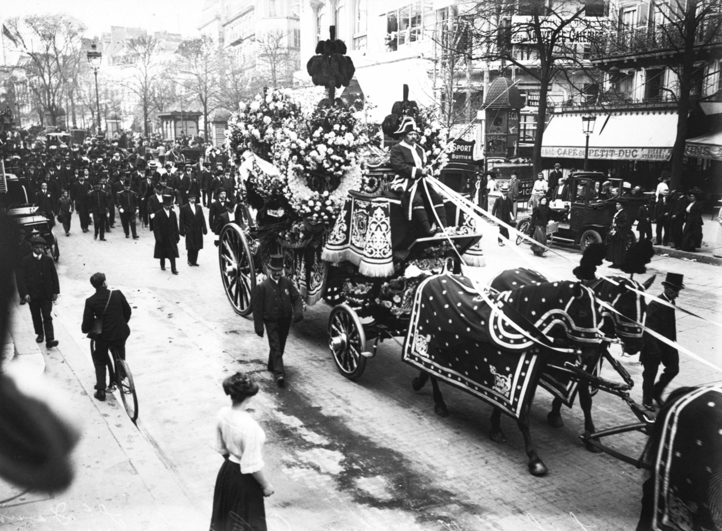 Funeral of Franco-Peruvian aviator Jorge Chávez Dartnell (1887-1910). Paris, near the Porte Saint-Denis, 1st October 1910.